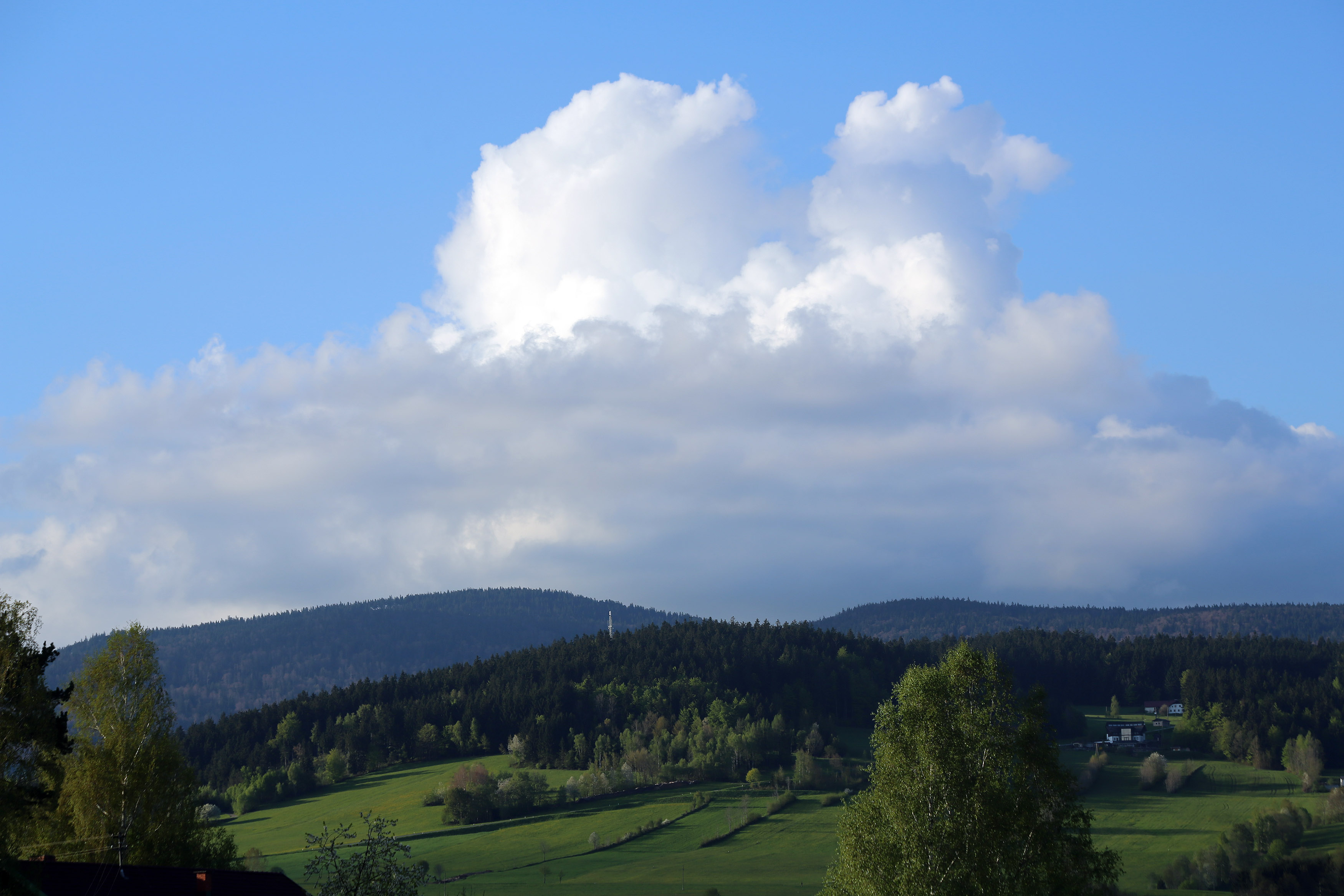 Bohemian Forest seen from Ulrichsberg, Upper Austria)